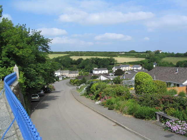 Laddenvean from St Keverne. View down Commercial Road from the Methodist Church in St Keverne. The occupants of the houses at the bottom of the road are proud to belong to the separate village of Laddenvean